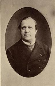 Portrait of Guillaume Schnaebelé (1831-1900)